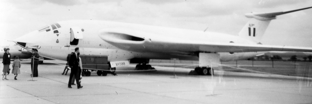 Handley Page Victor B1A XH588 in September at an East Anglian Battle of Britain day